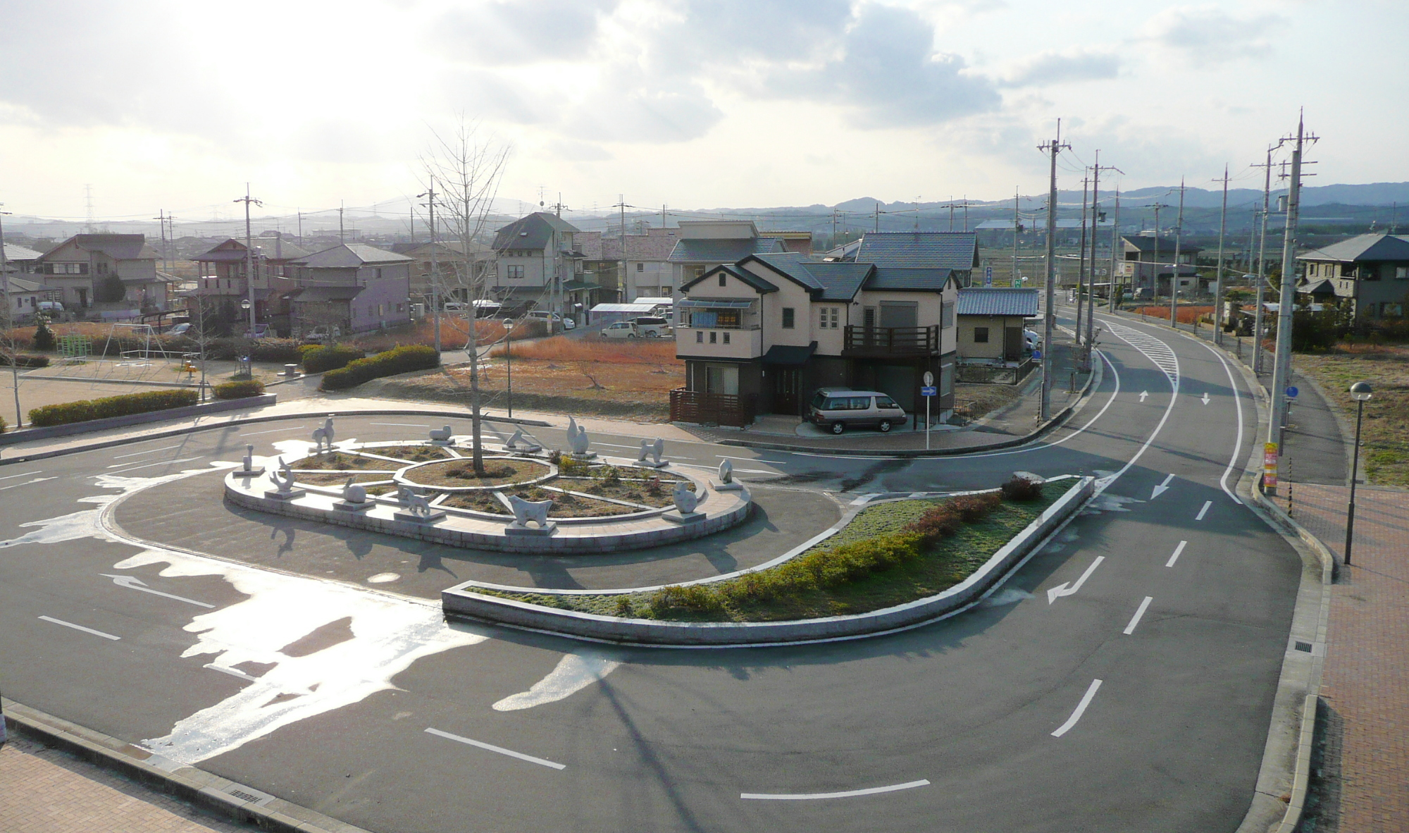 West Japan Railway, Nara Line, Tanakura Station west square.